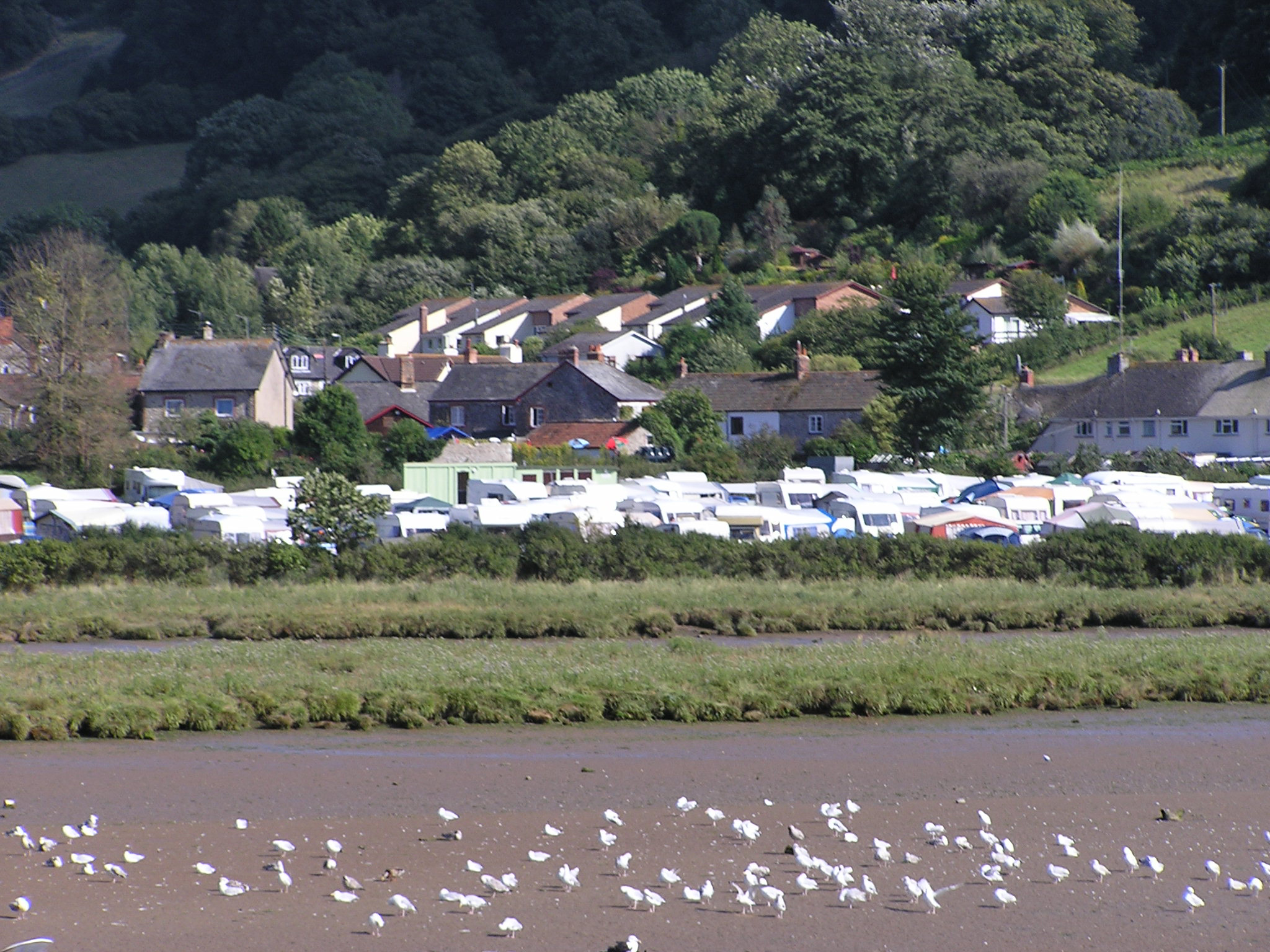 Looking across R. Axe to Axmouth, Seaton Devon.